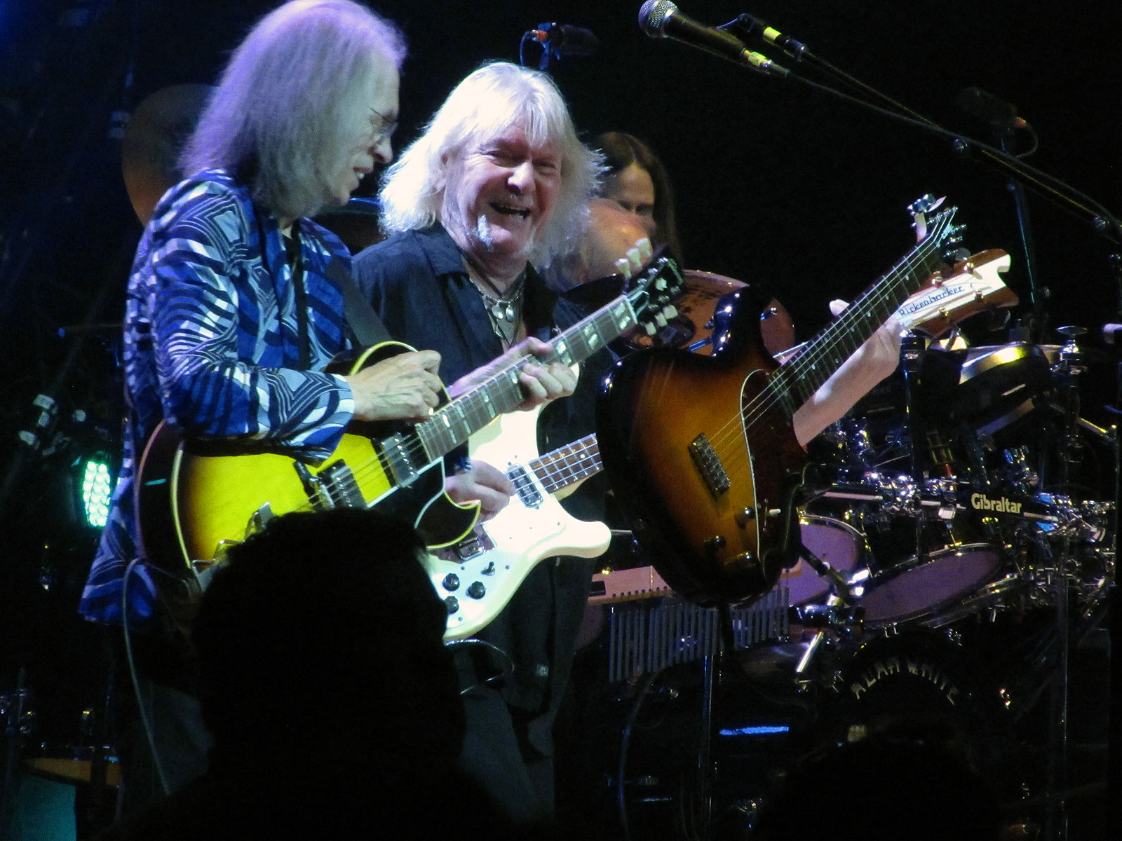 Yes concert at Massey Hall, Toronto, Ontario